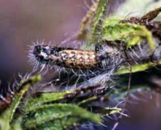 Neotropical species of the family Pterophoridae, part II. Zool. Med. Leiden 85